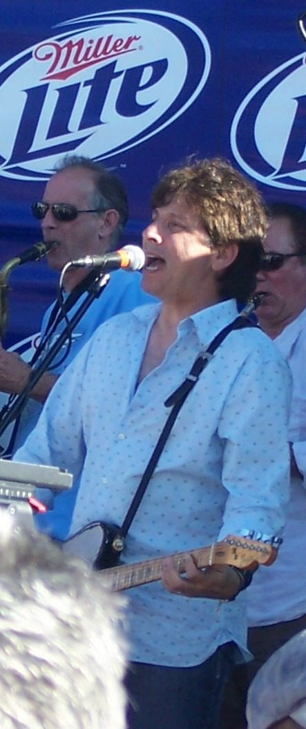 Bobby Bandiera (center front), performing with Southside Johnny and the Asbury Jukes at their annual Bar A end of summer show in Lake Como, New Jersey.